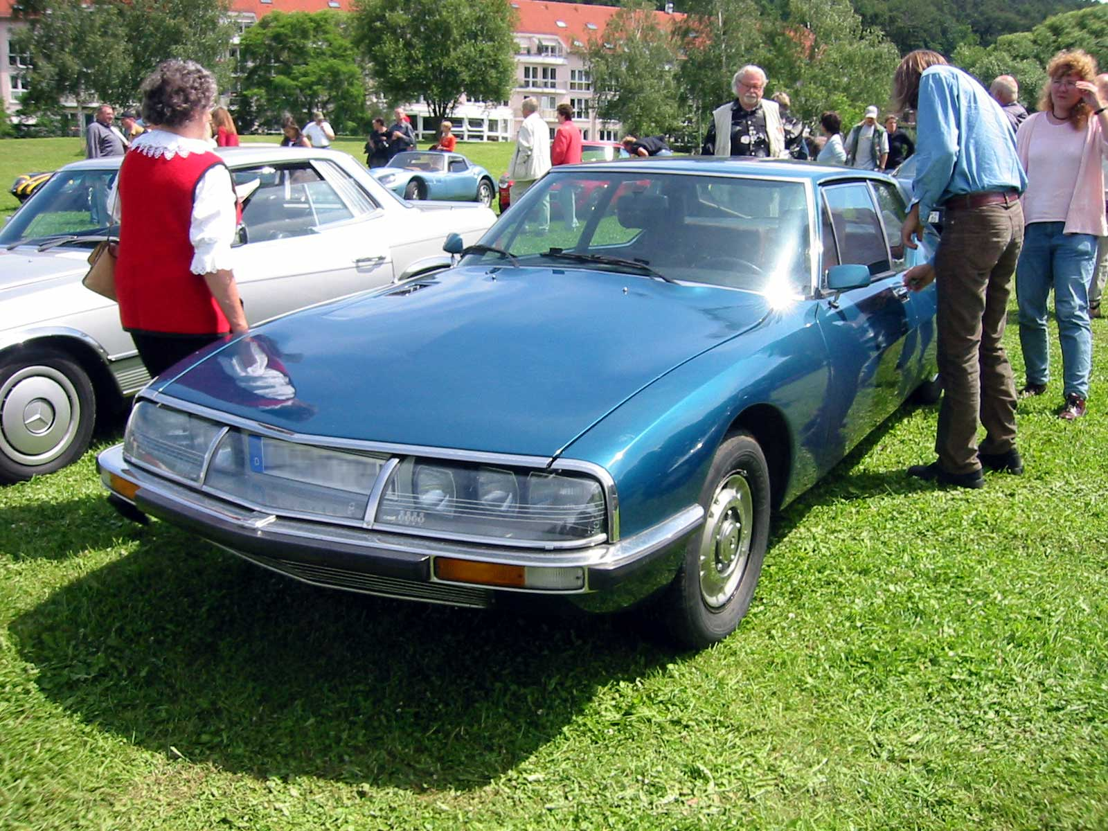 Citroën SM